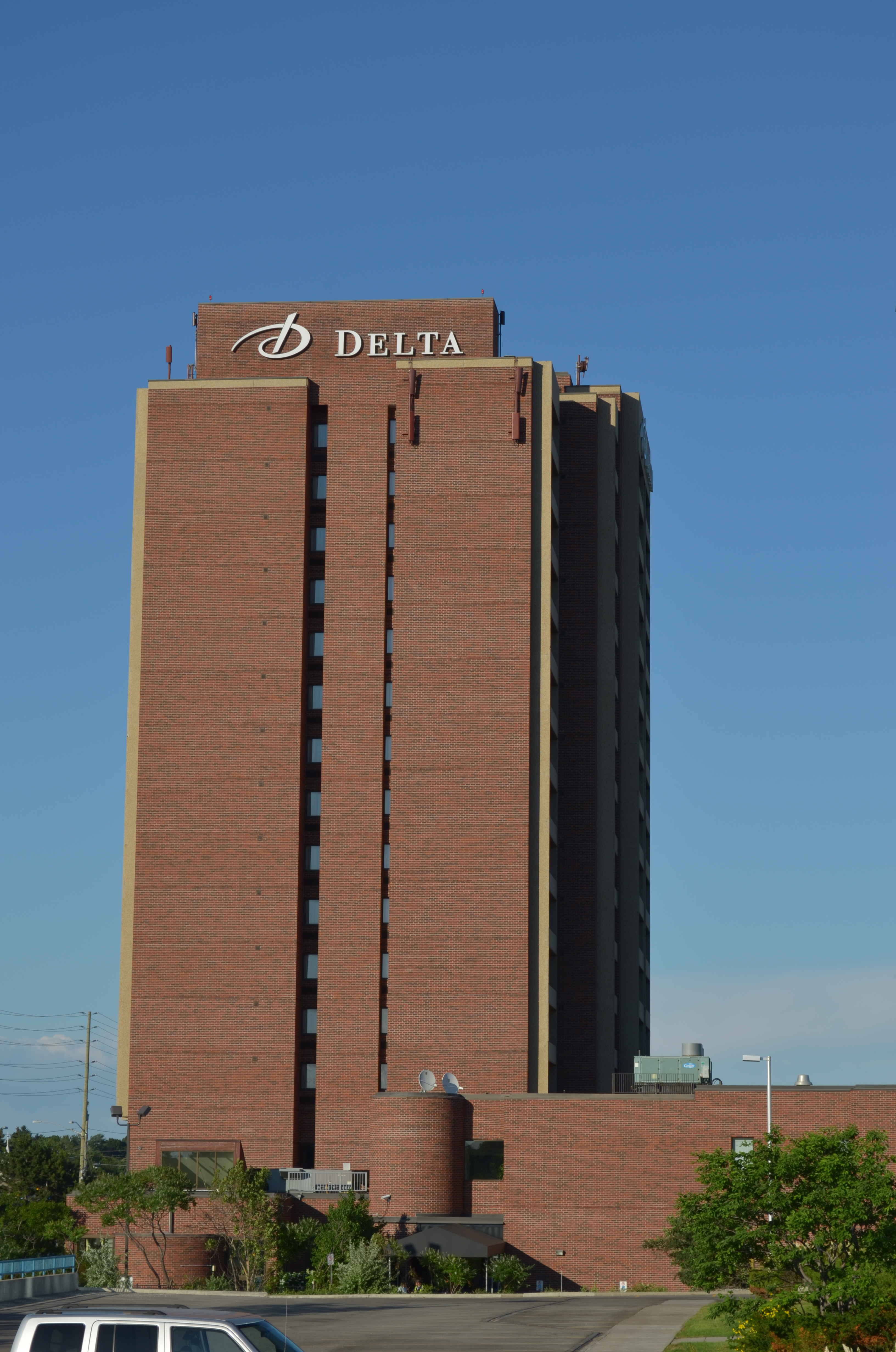 Delta Markham hotel